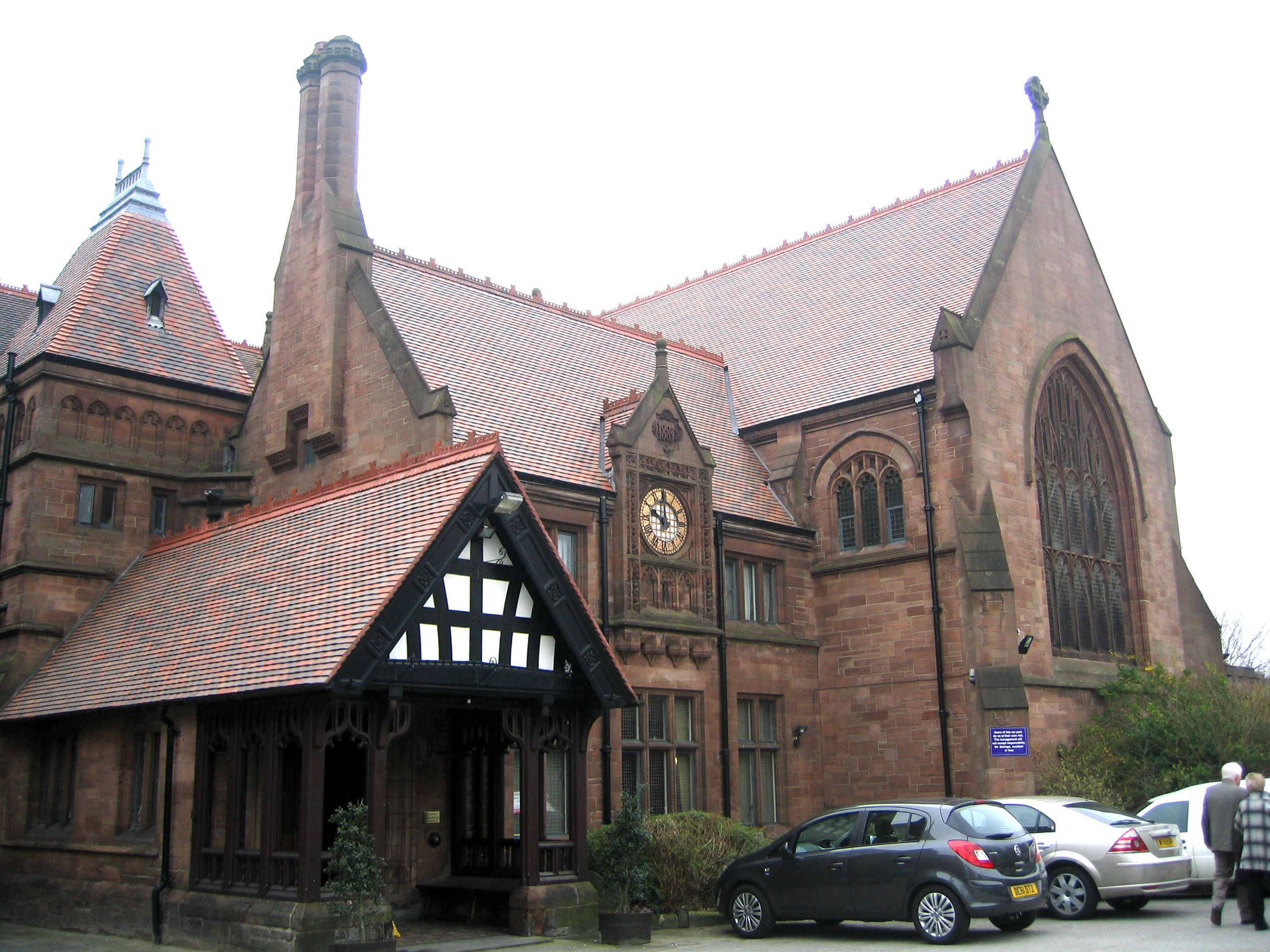 Photograph of the Turner Home, Liverpool, showing the entrance porch and chapel